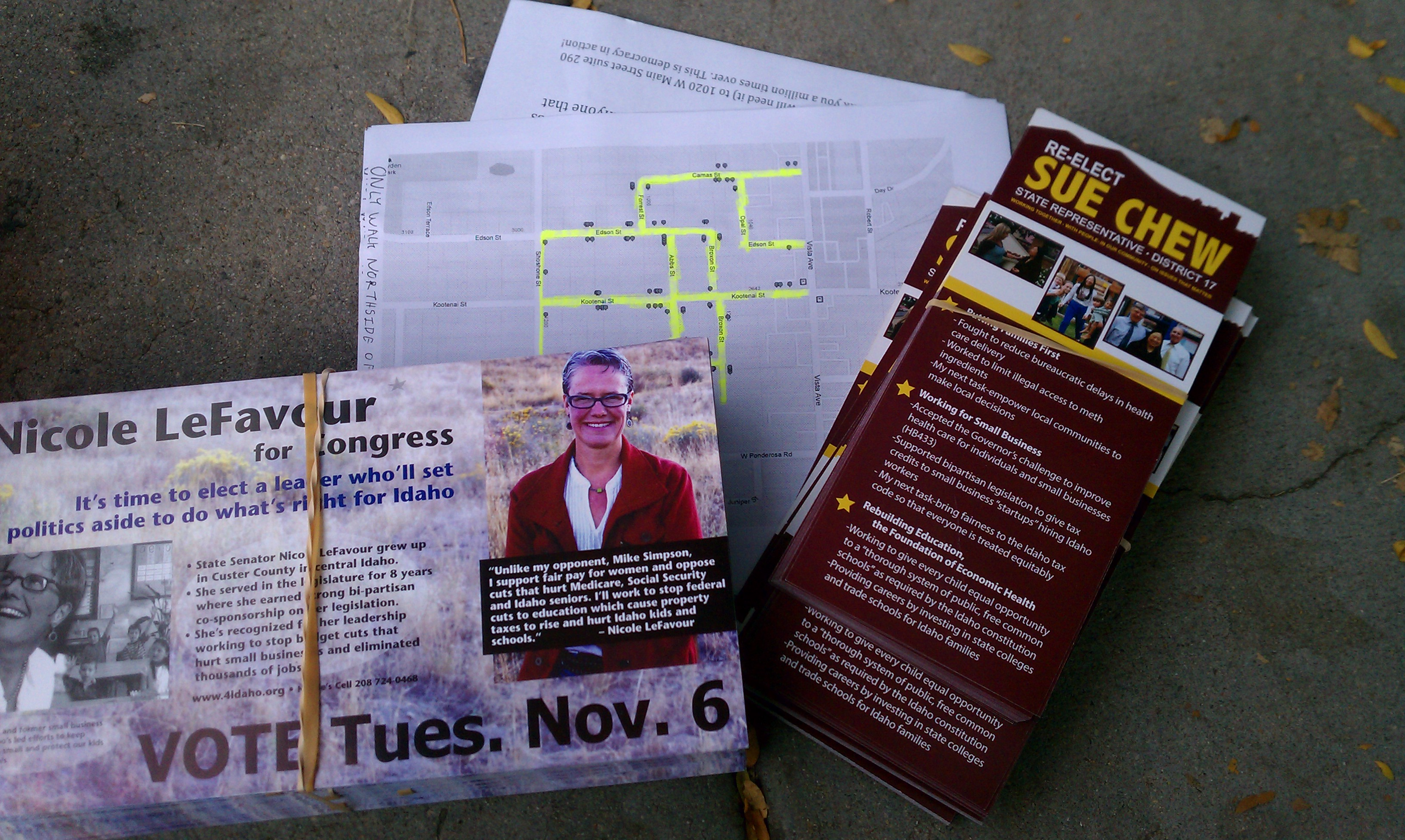 Canvassing materials for a GOTV operation in Boise, Idaho in the November, 2012 election. The candidates are Nicole LeFavour and Susan Chew, who were running for national and state office, respectively.